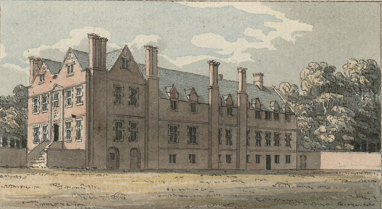 An image from a set of 8 extra-illustrated volumes of A tour in Wales by Thomas Pennant (1726-1798) that chronicle the three journeys he made through Wales between 1773 and 1776. These volumes are unique because they were compiled for Pennant's own library at Downing. This edition was produced in 1781. The volumes include a number of original drawings by Moses Griffiths, Ingleby and other well known artists of the period. Thomas Pennant (1726-1798)